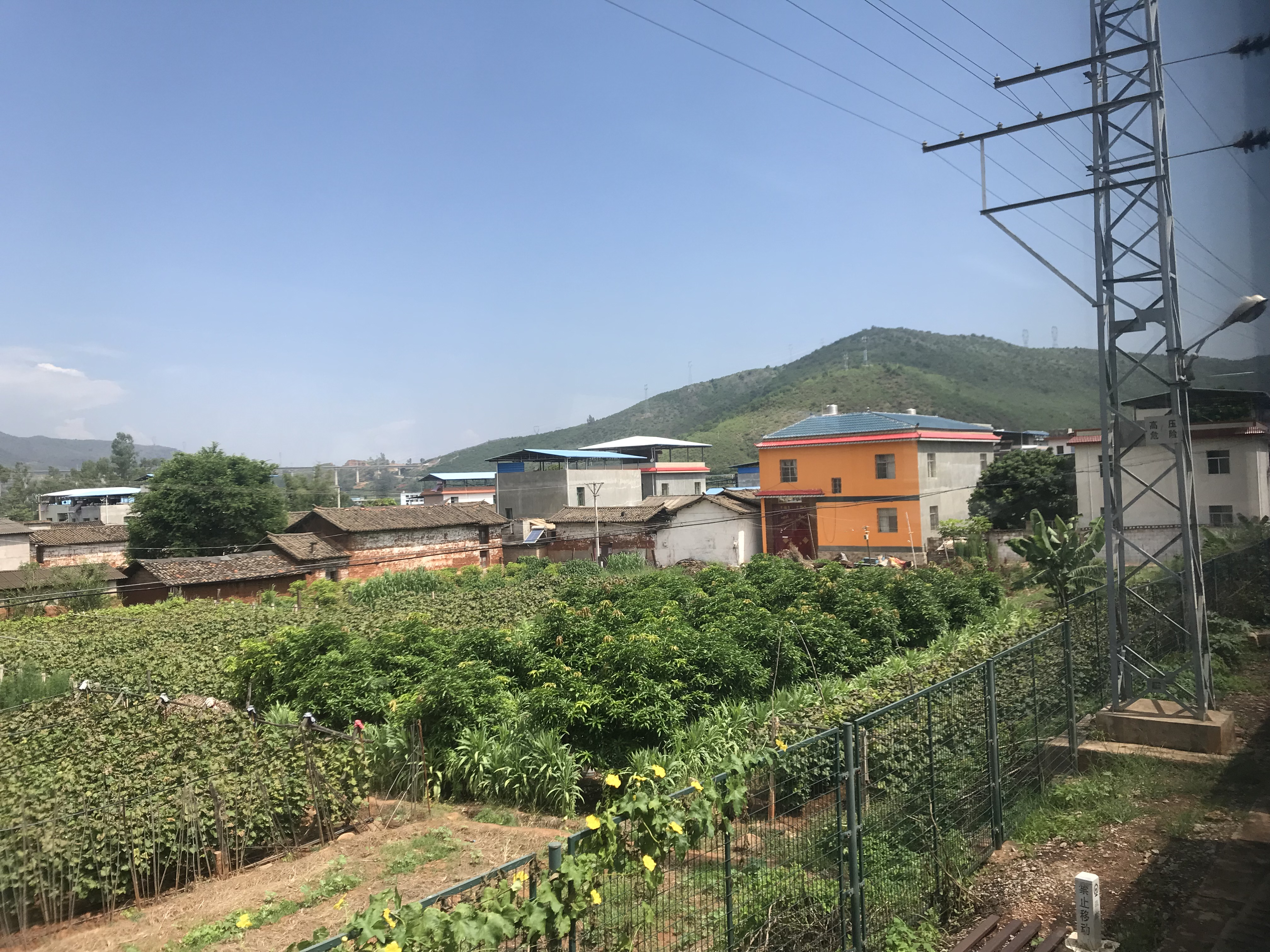 201908 Yindi Village, Yuanmou